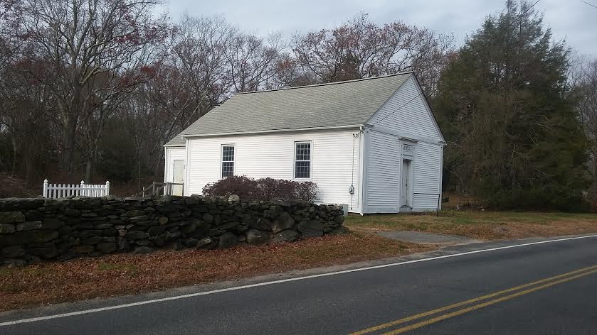 Six Principle Baptist Church in North Kingstown Rhode Island built ca. 1703, photo taken in 2016. Possibly the oldest surviving Baptist church building in the United States.